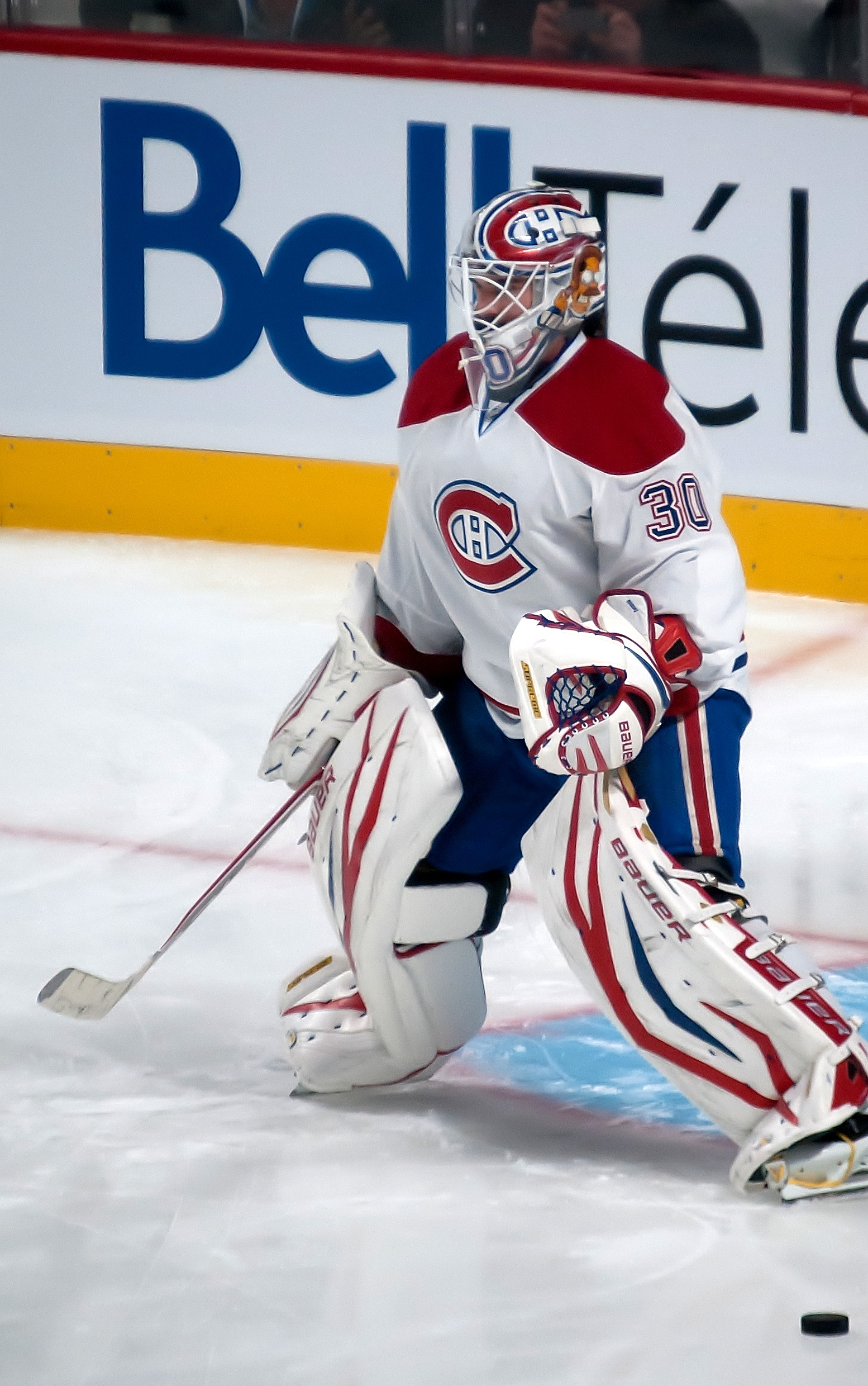 Montreal Canadiens goaltender Peter Budaj during a practice with his team.